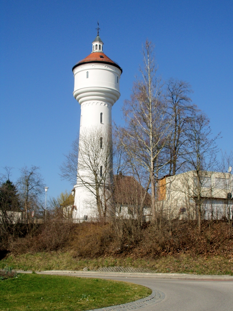 Mühldorf am Inn, water tower on Innere Neumarkter Straße (no. 13) from south-east.